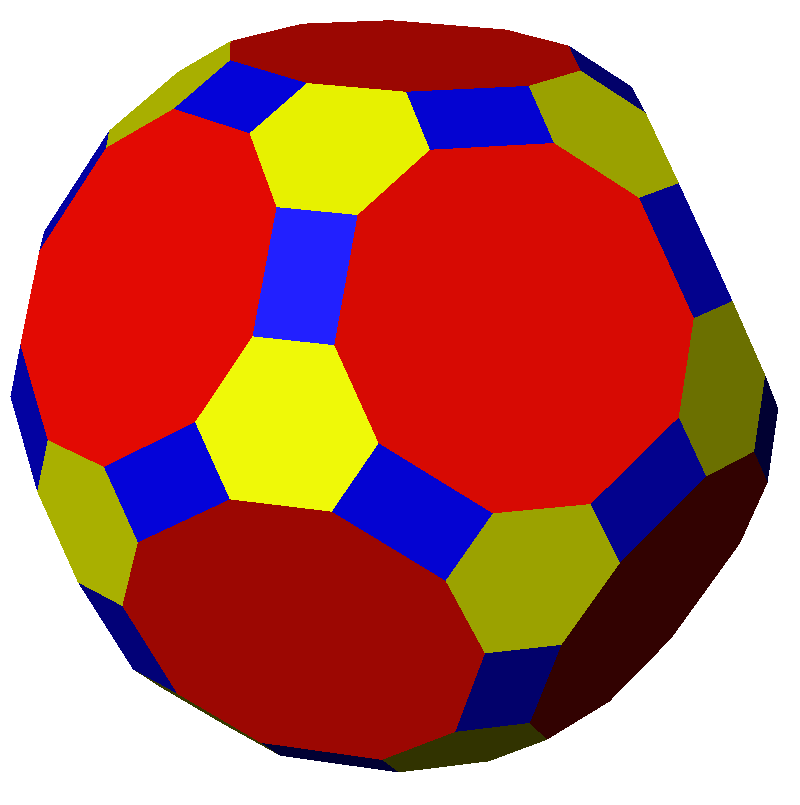 Example nonuniform truncated icosidodecahedron created by literal truncation of icosidodecahedron. KaleidoTile, Topology and Geometry Software, Jeff Weeks